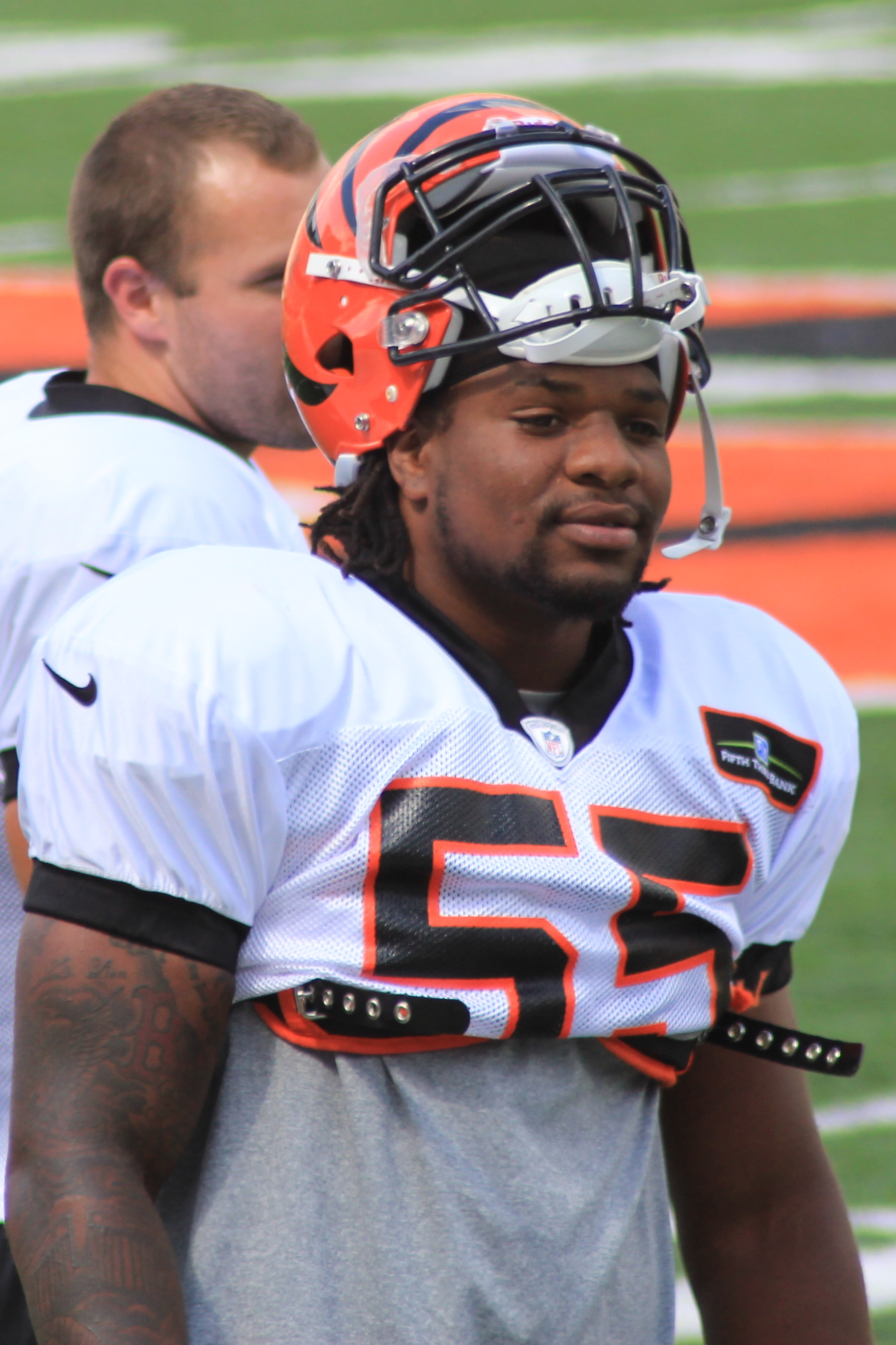 Rookie Vontaze Burfict with the Bengals.